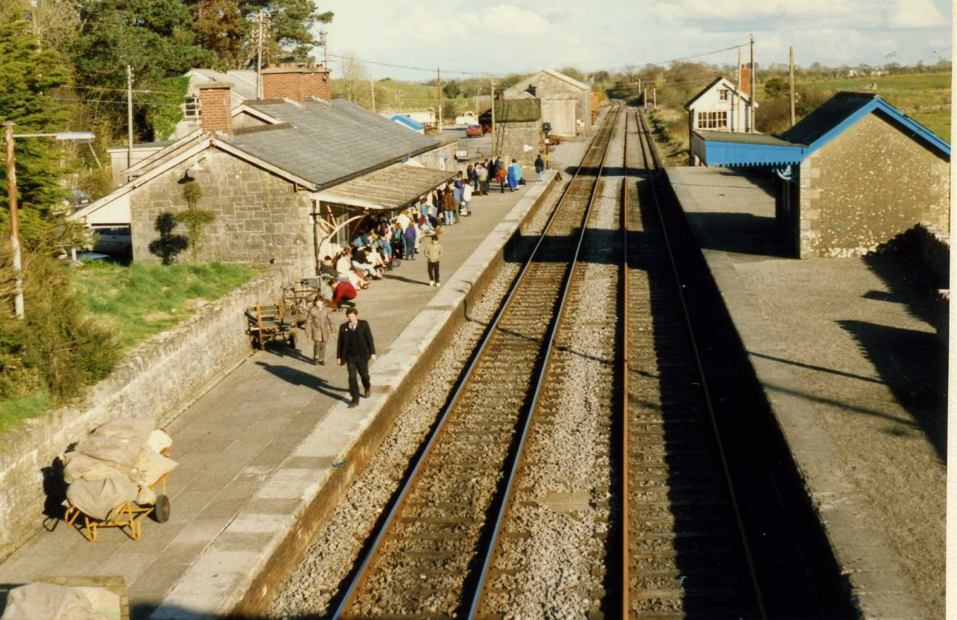 Waiting for the Dublin bound evening express. Mail bags are loaded on a trolley on the platform. The postal worker is walking along the platform towards his trolley. Only one side of the station is in use - the rusty down line is not connected to the up line at the top of the picture.